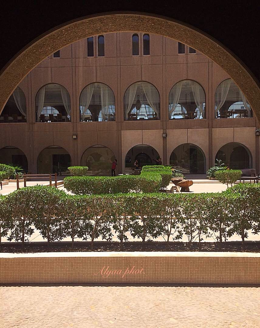 Sheratton Hotel in Basrah - Iraq